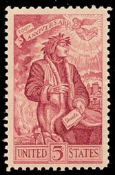 US stamp honoring Dante